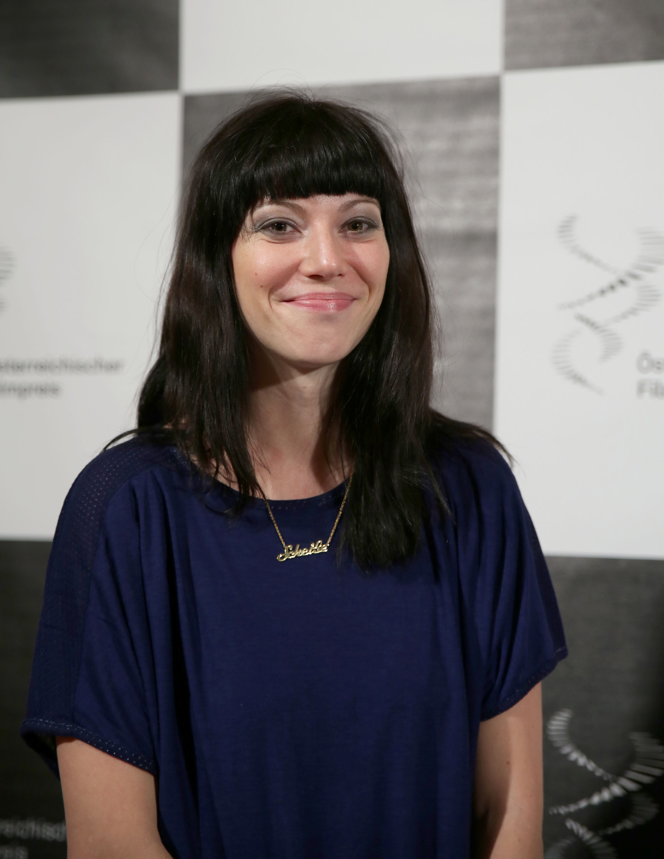 Eva Jantschitsch, Austrian Film Awards 2013 (Vienna).